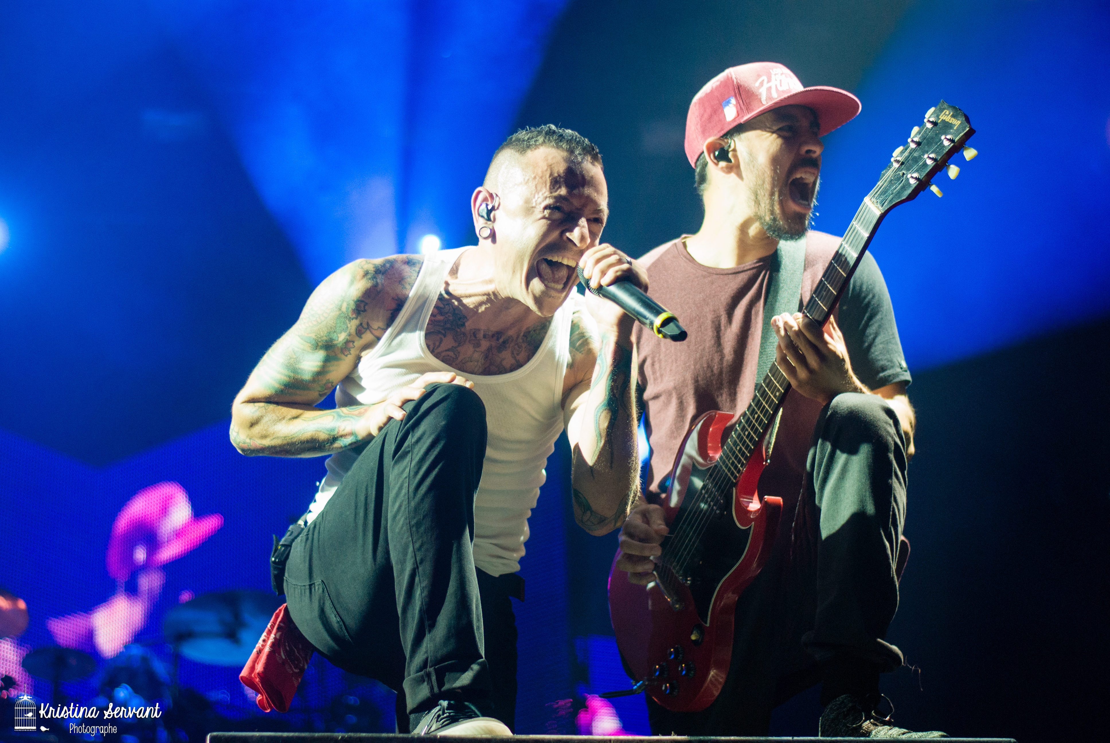 Taken on August 23, 2014 in Montreal. Chester Bennington and Mike Shinoda of Linkin Park performing Live